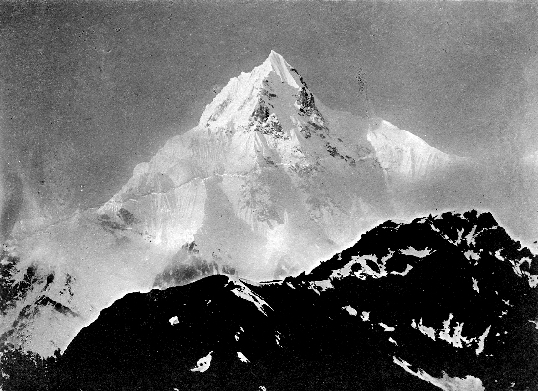 A photograph of Siniolchu taken by Charles Fanning sometime in the early 20th century. Scanned from a contact print of a 8x10 negative.